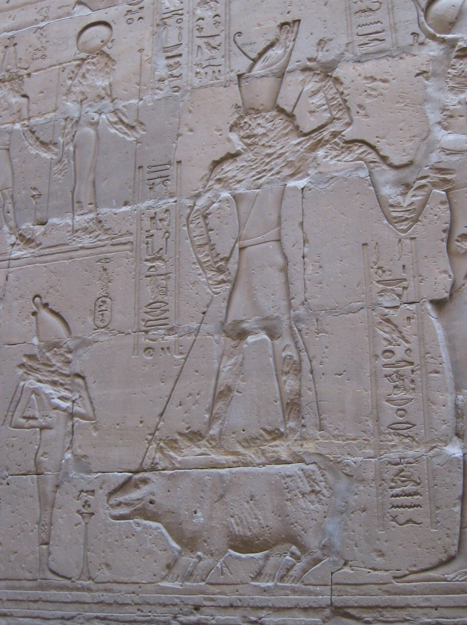 this Seth is a tad more formidable